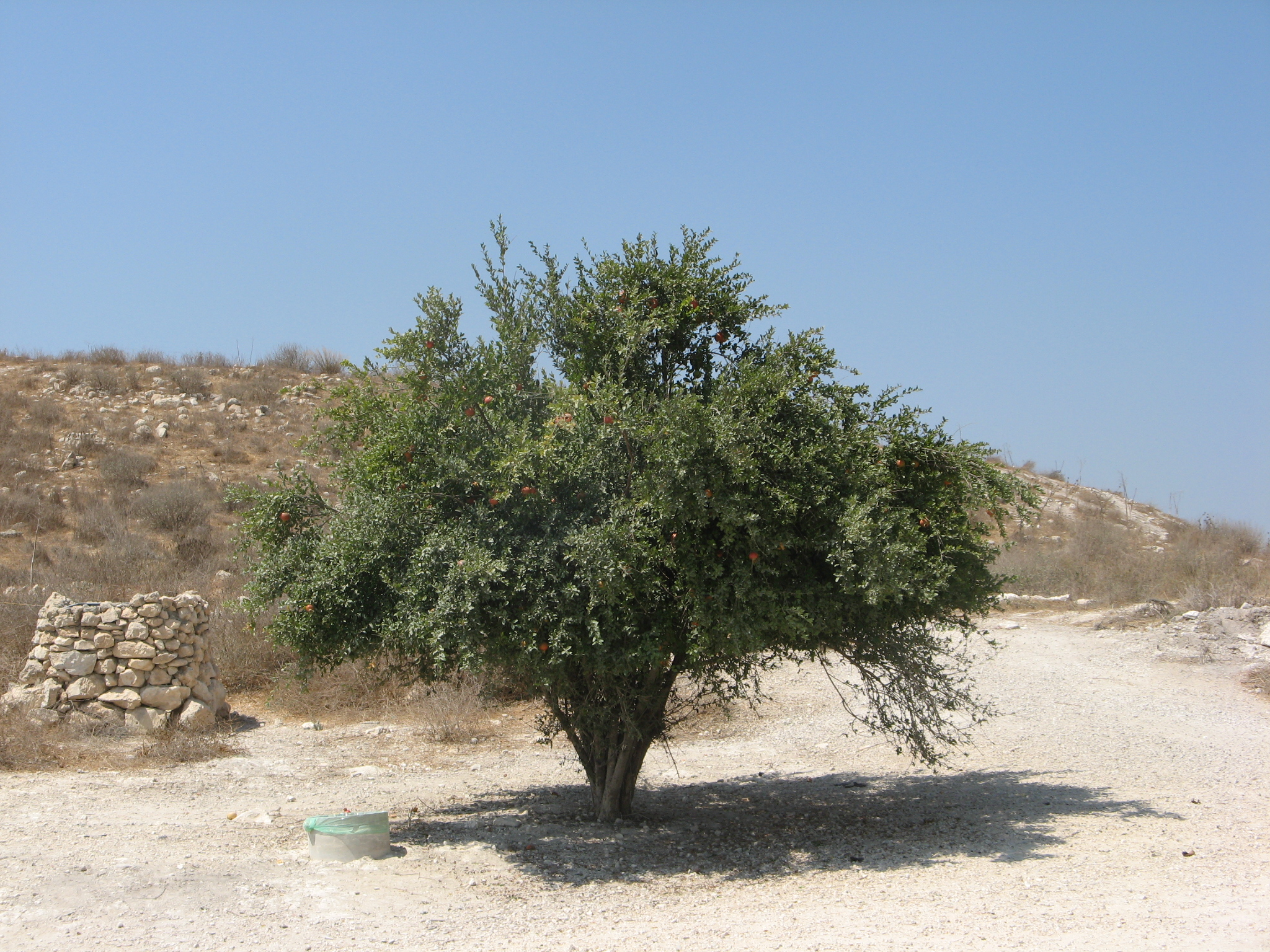 Punica granatum tree in Maresha Israel in August. Fruit is clearly seen on the tree.